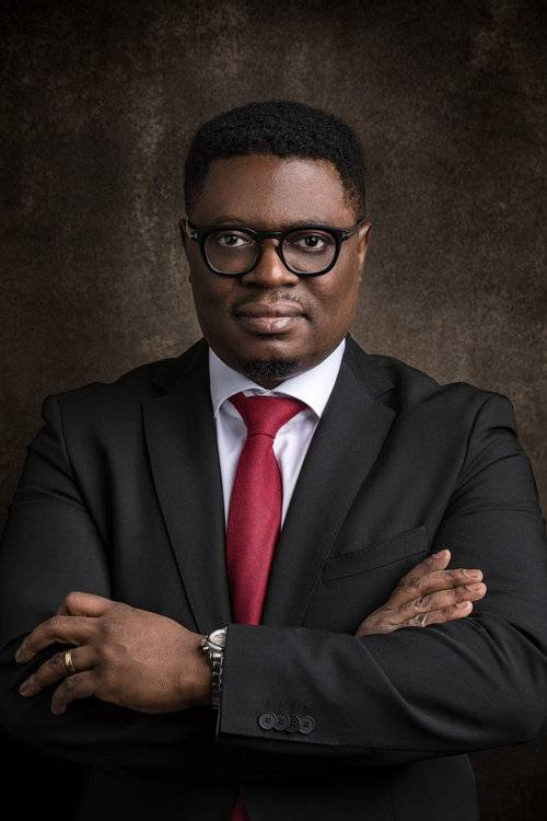 Alain shékomba, one of the opponent of DRC